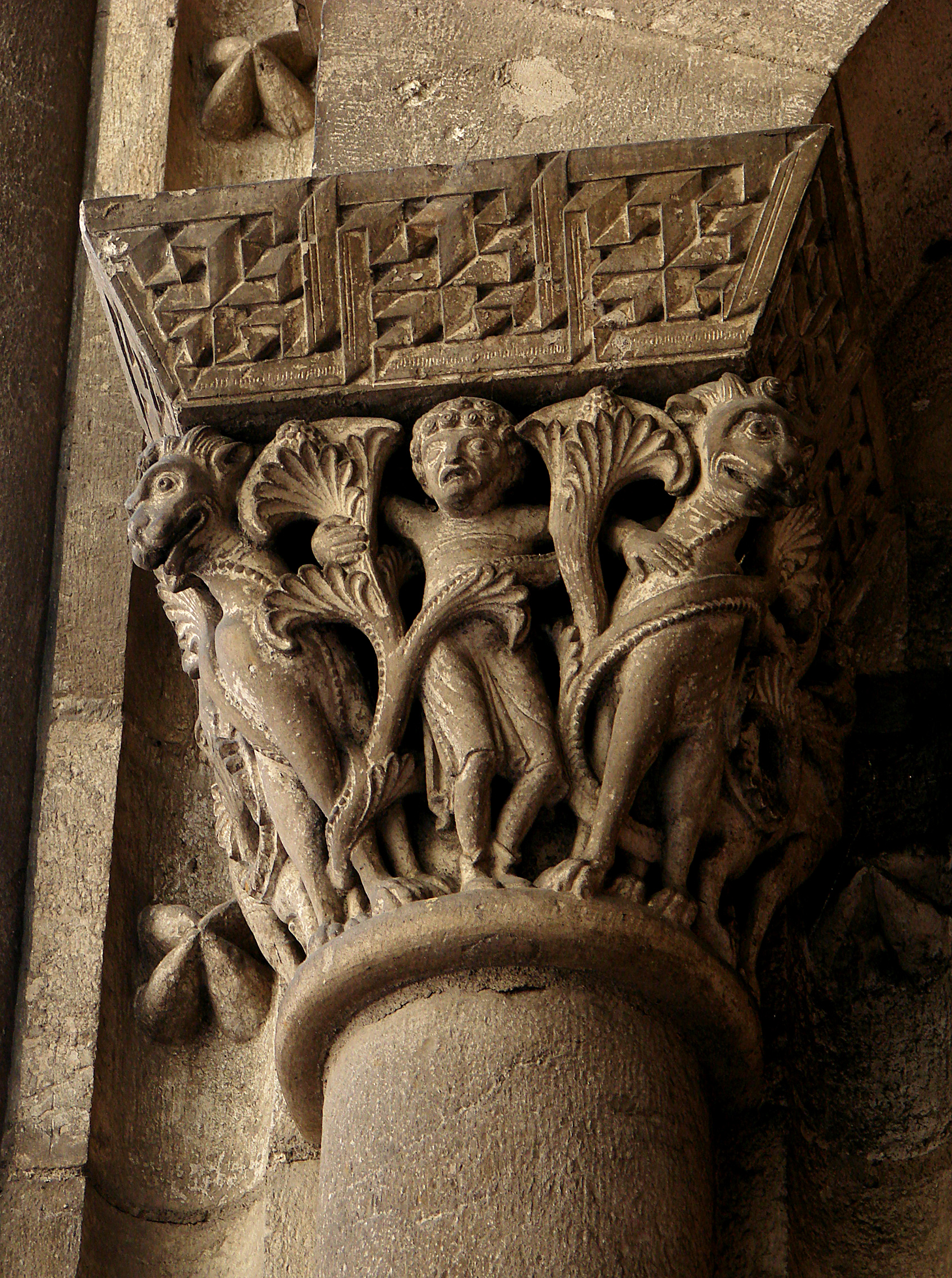 Cathedral Saint-Etienne (11th - 12th century), Cahors, France. A capital.